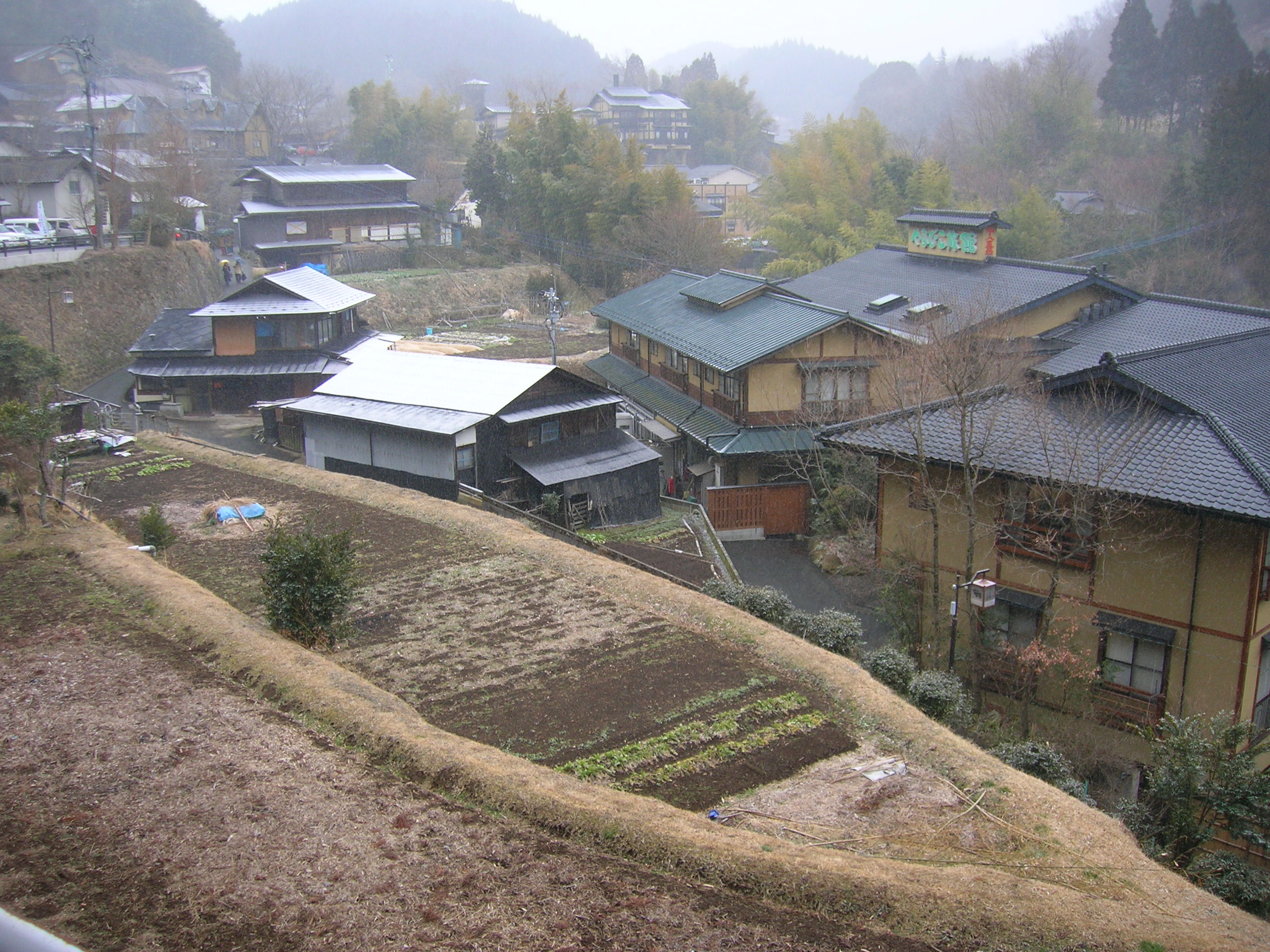 Photo by Yosemite 11:44, 25 November 2005 (UTC). Kurokawa is Onsen in Japan.